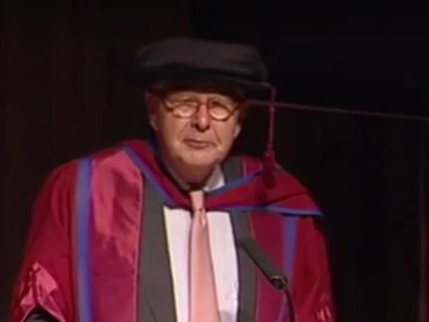 Professor Jan Breman received an honorary doctorate at the April 2013 SOAS Graduation Ceremony. Still at 06:46.